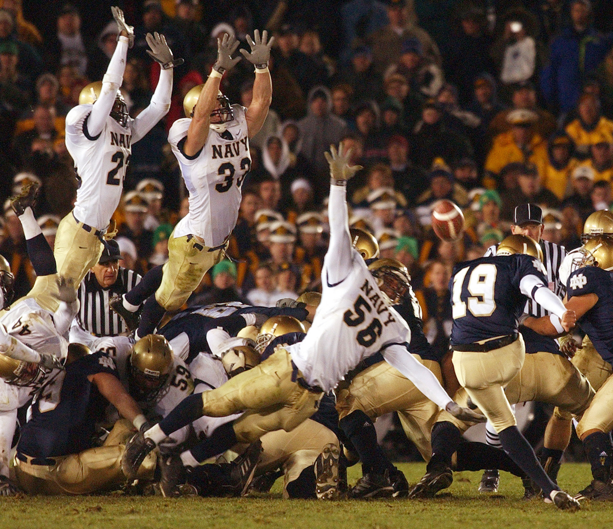 South Bend, Ind. (Nov. 8, 2003) –- In the final seconds Navy defenders Vaughn Kelley (23), Josh Smith (33) and Dan Peters (56) stretch out to block a field goal attempt by Notre Dame's D.J. Fitzpatrick. The kick was good for a Notre Dame 27-24 win in South Bend. The victory for the Irish (3-6) not only broke the team's three-game slide at home, but also extended the NCAA record for consecutive wins over one opponent to 40 games. The last time Navy defeated Notre Dame was November 1963 when Roger Staubach was at the helm and claimed the Heisman Trophy. The Midshipmen are now 6-4 in the season. U.S. Navy photo by Lt. Cmdr. Scott Allen. (RELEASED)